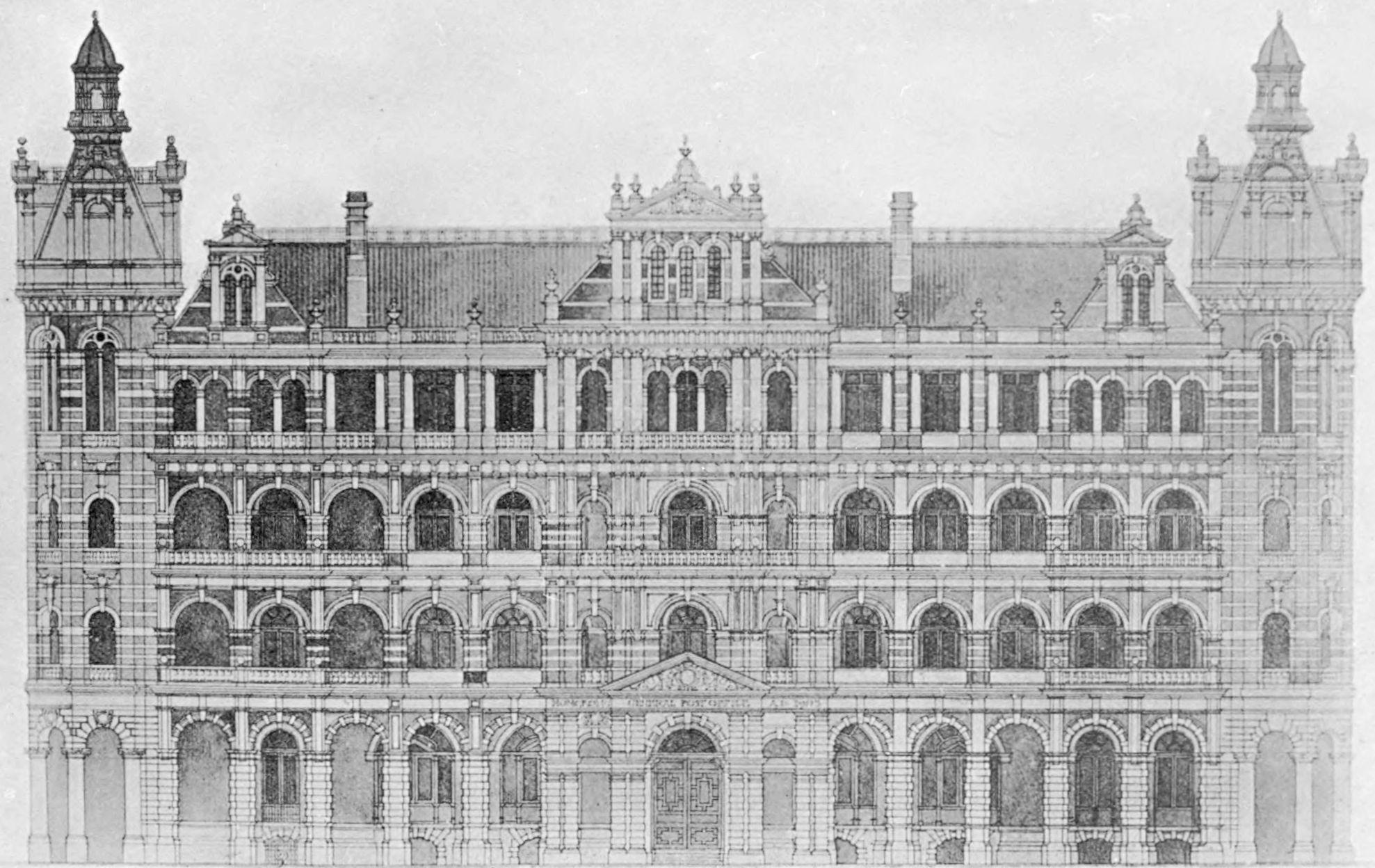 Plan of the post office and other government offices - Hong Kong